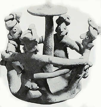 El hongo sagrado